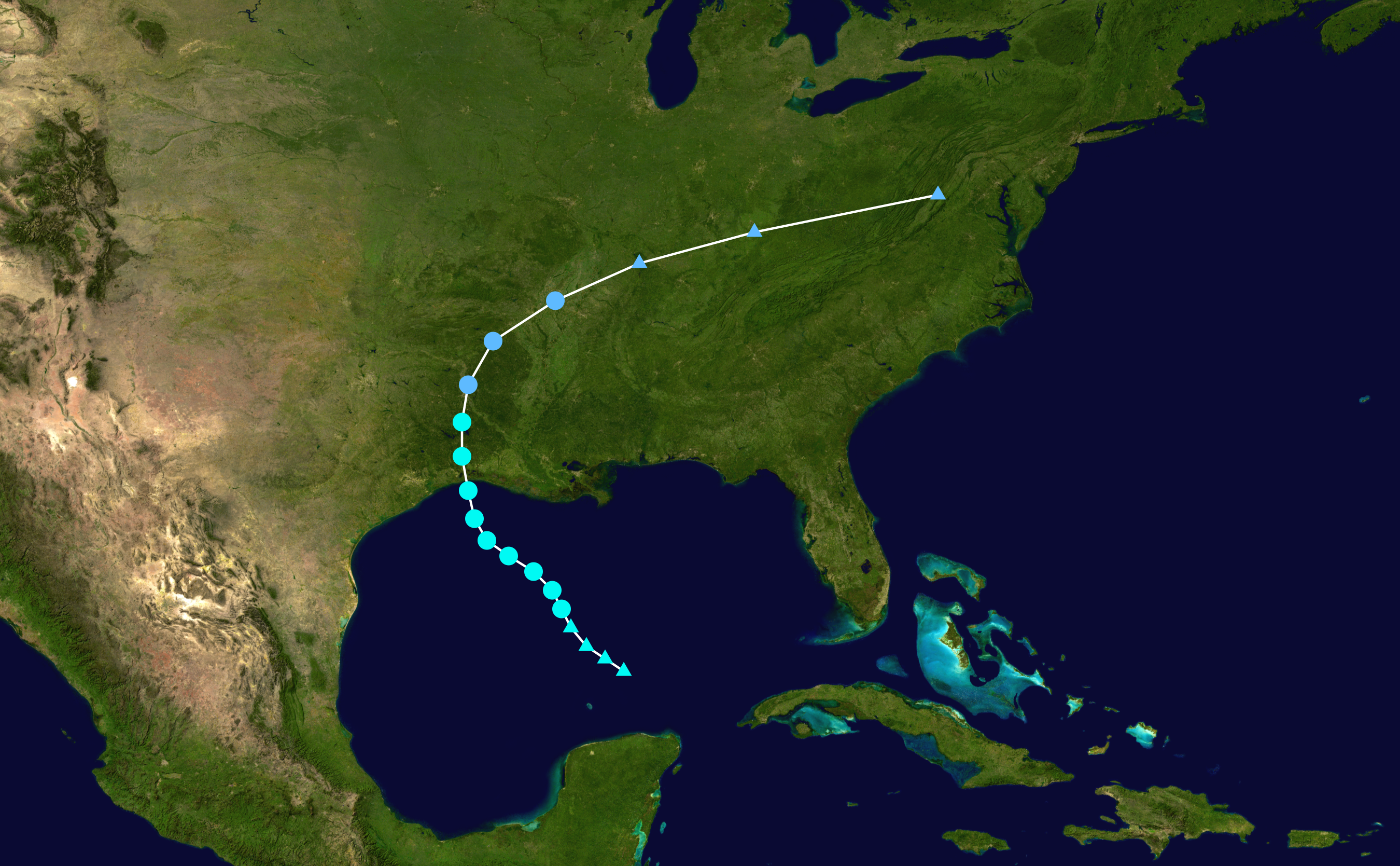 Track map of Tropical Storm Cindy of the 2017 Atlantic hurricane season. The points show the location of the storm at 6-hour intervals. The colour represents the storm's maximum sustained wind speeds as classified in the Saffir–Simpson scale (see below), and the shape of the data points represent the nature of the storm, according to the legend below. Saffir–Simpson scale Tropical depression≤38 mph≤62 km/h Category 3111–129 mph178–208 km/h Tropical storm39–73 mph63–118 km/h Category 4130–156 mph209–251 km/h Category 174–95 mph119–153 km/h Category 5≥157 mph≥252 km/h Category 296–110 mph154–177 km/h Unknown Storm type Tropical cyclone Subtropical cyclone Extratropical cyclone / Remnant low / Tropical disturbance / Monsoon depression